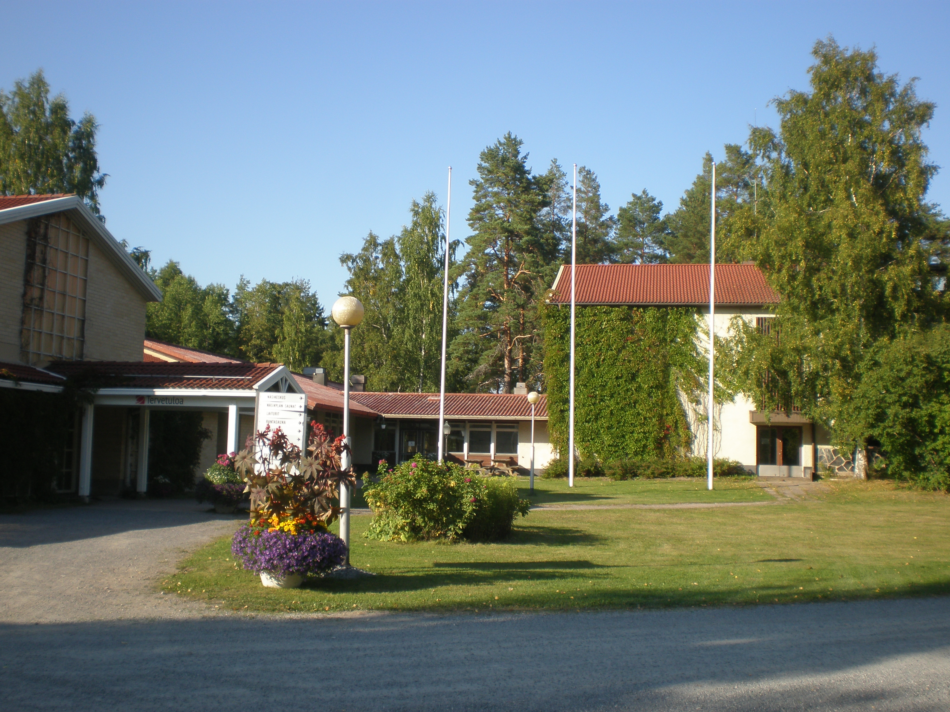 Voionmaa folk high school, main building